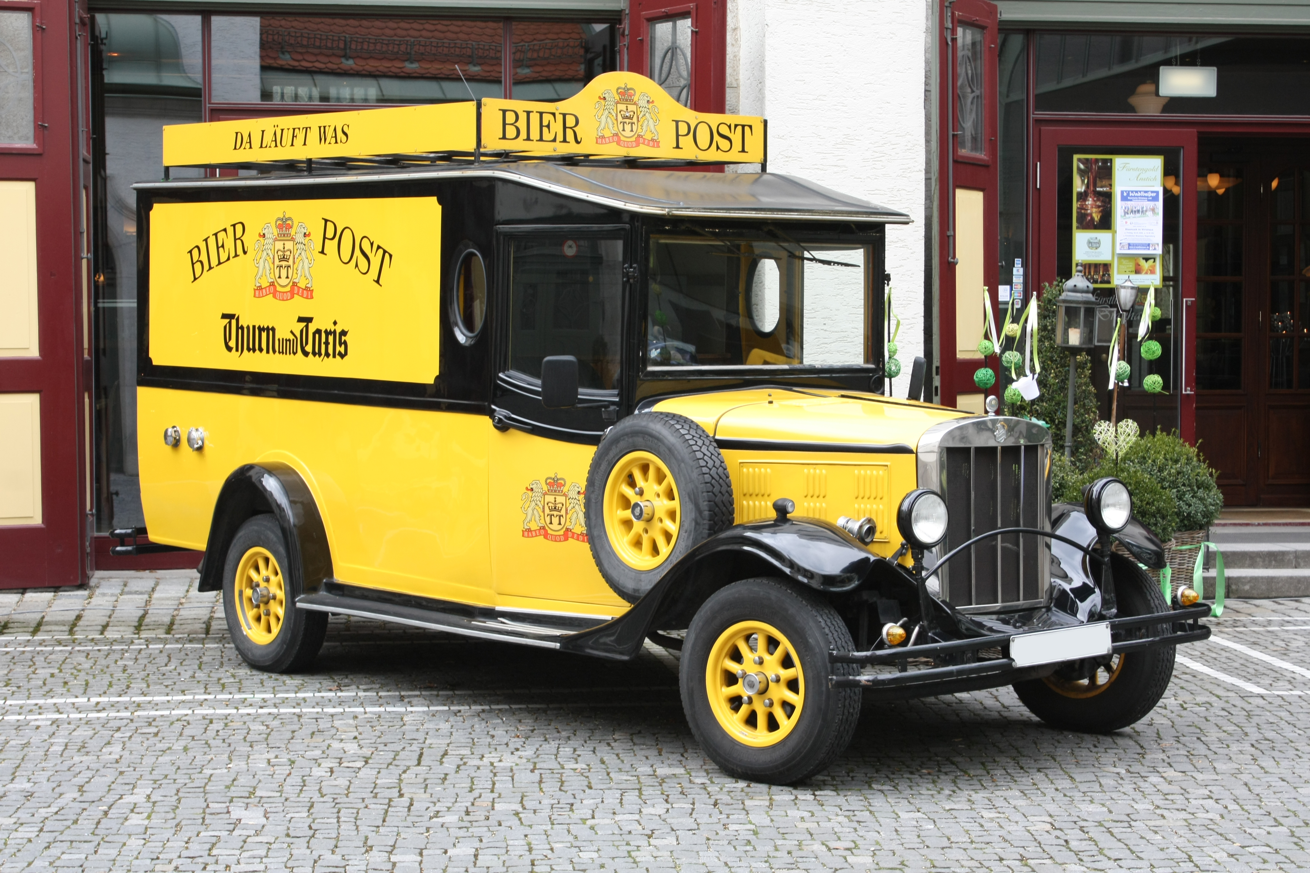 Asquith Shire Thurn & Taxis Beer Post Truck